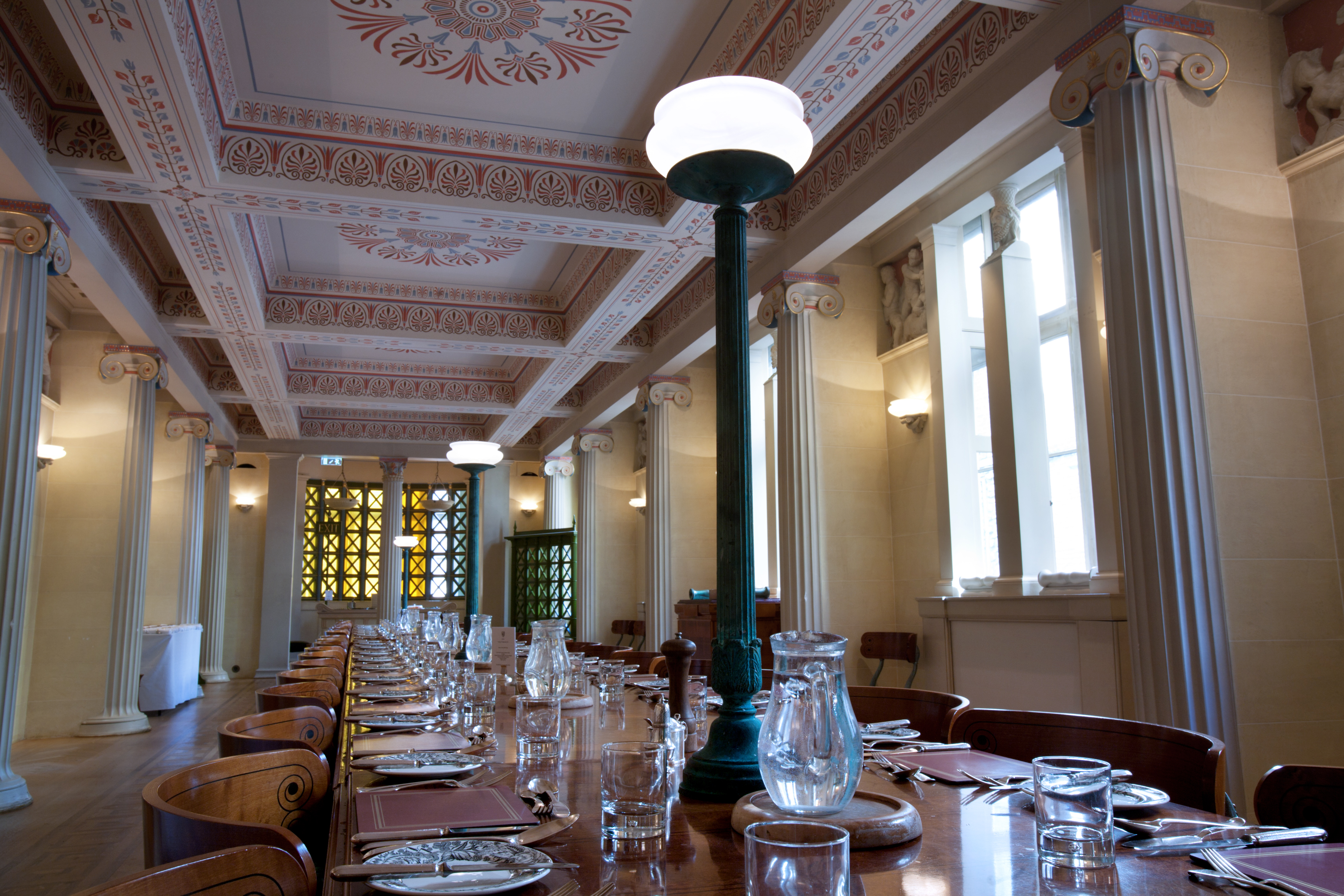 Proffessor's Dinner hall. Gonville & Caius College, Cambridge